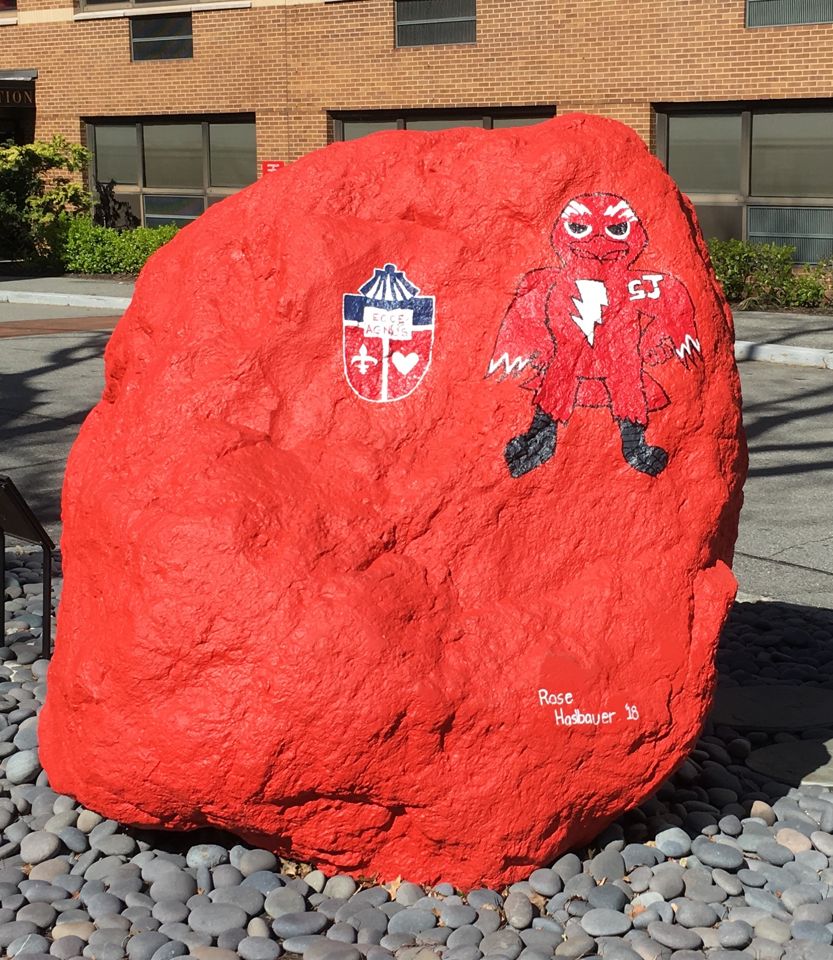 Red painted rock at St. Johns University